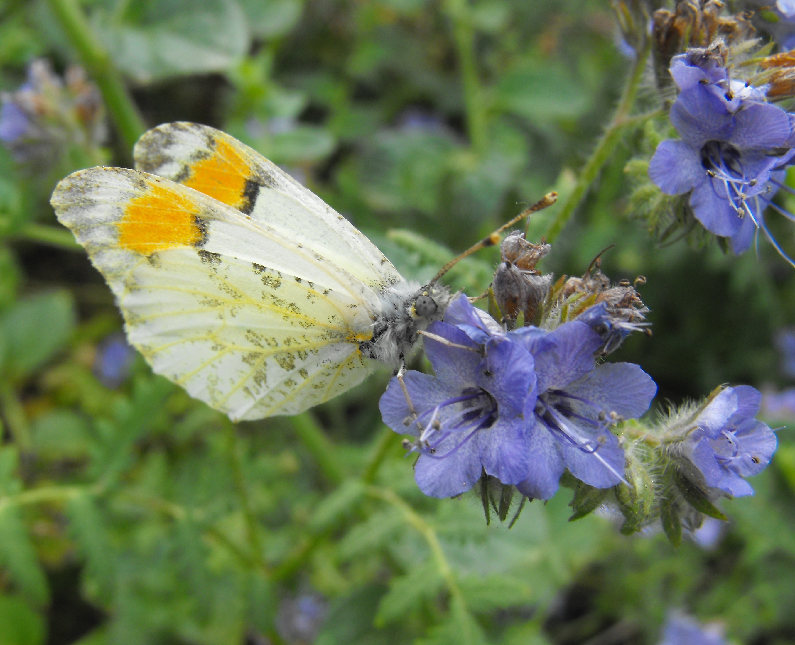 Anthocharis cethura cethura — on Phacelia flowers. At Lake Poway, in San Diego County, NW Peninsular Ranges, Southern California.